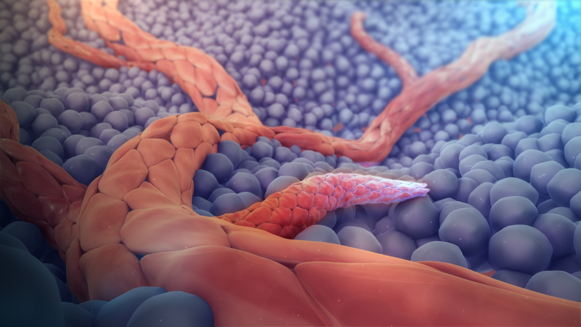 New blood vessels forming from pre-existing vessels.